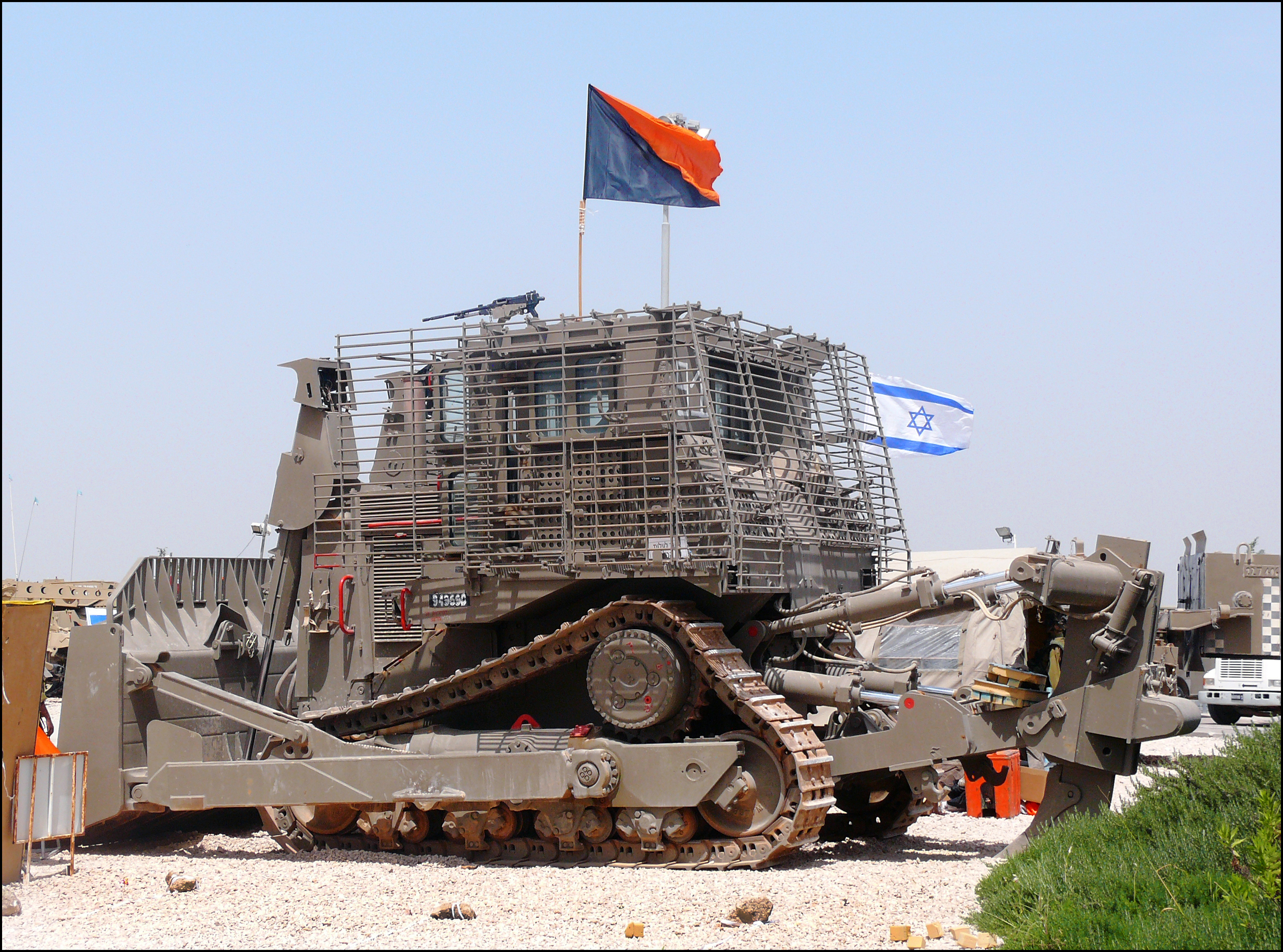 IDF Caterpillar D9R armored bulldozer with cage armor and FN MAG 7.62mm machinegun.